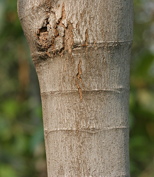 Batino, devil-tree or hard alstonia Alstonia macrophylla in Hyderabad, India.